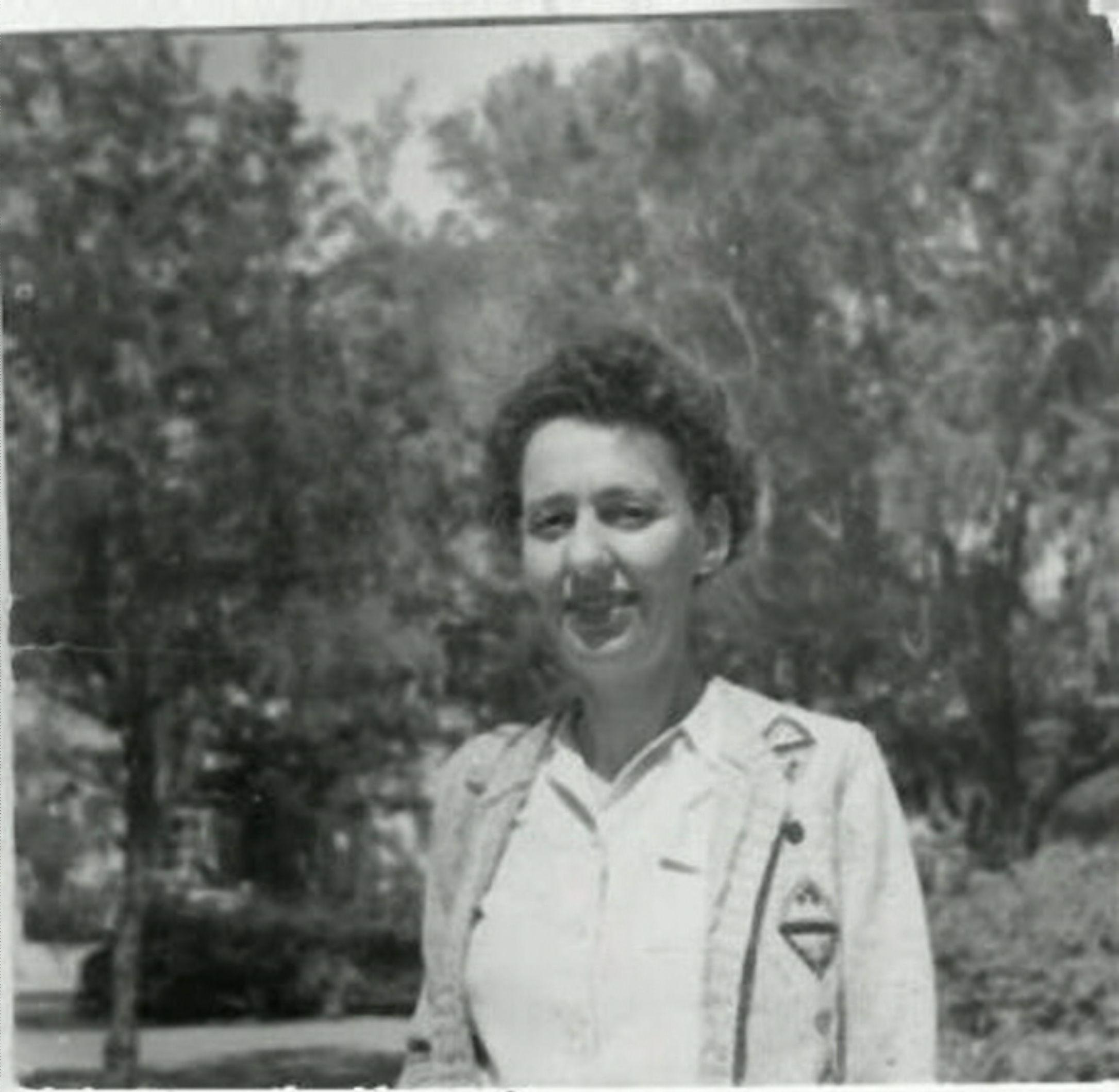 Leah Goldberg